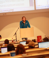 Studsam